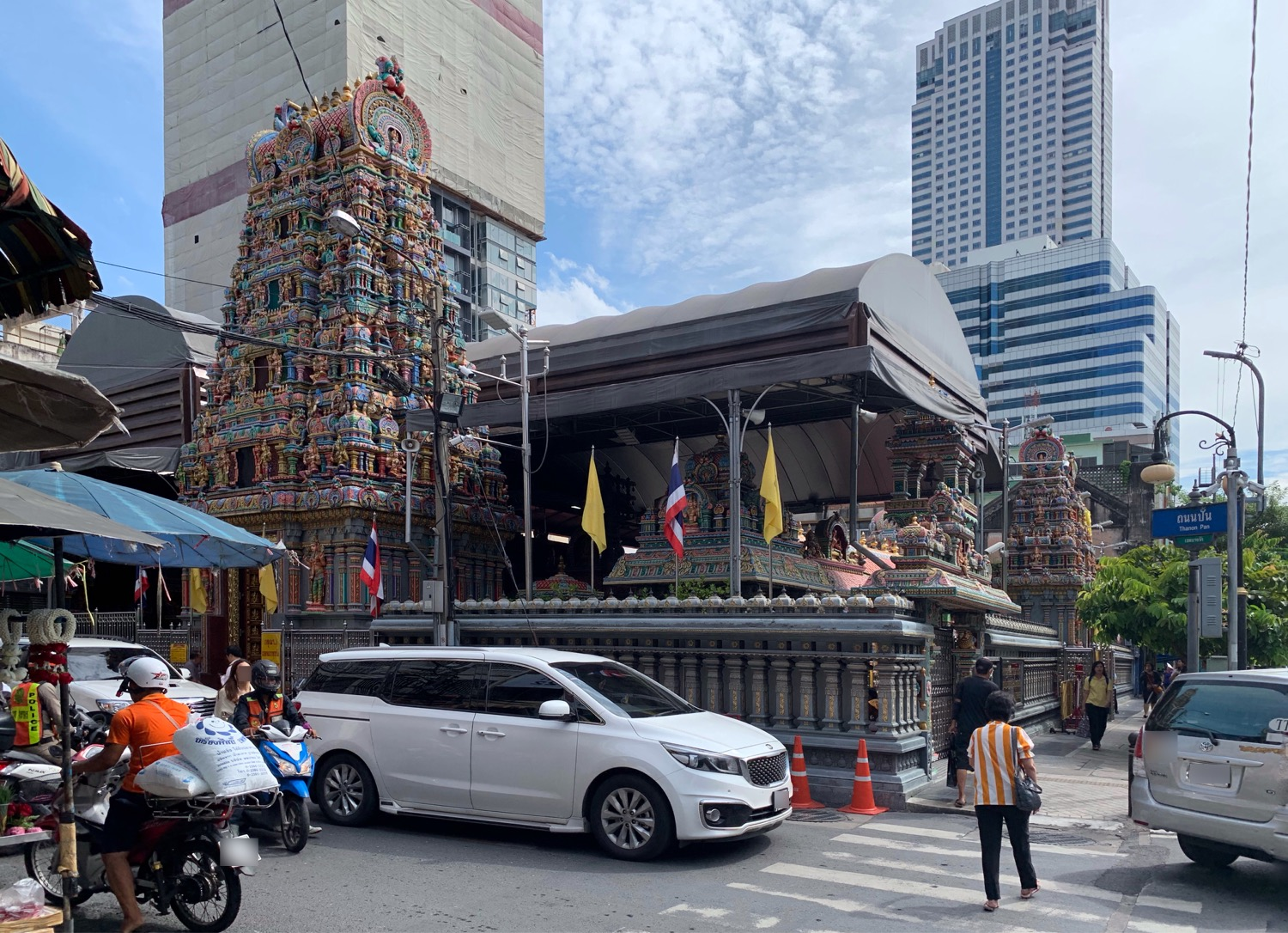 Sri Mahamariamman Temple Bangkok (Wat Khaek Silom)